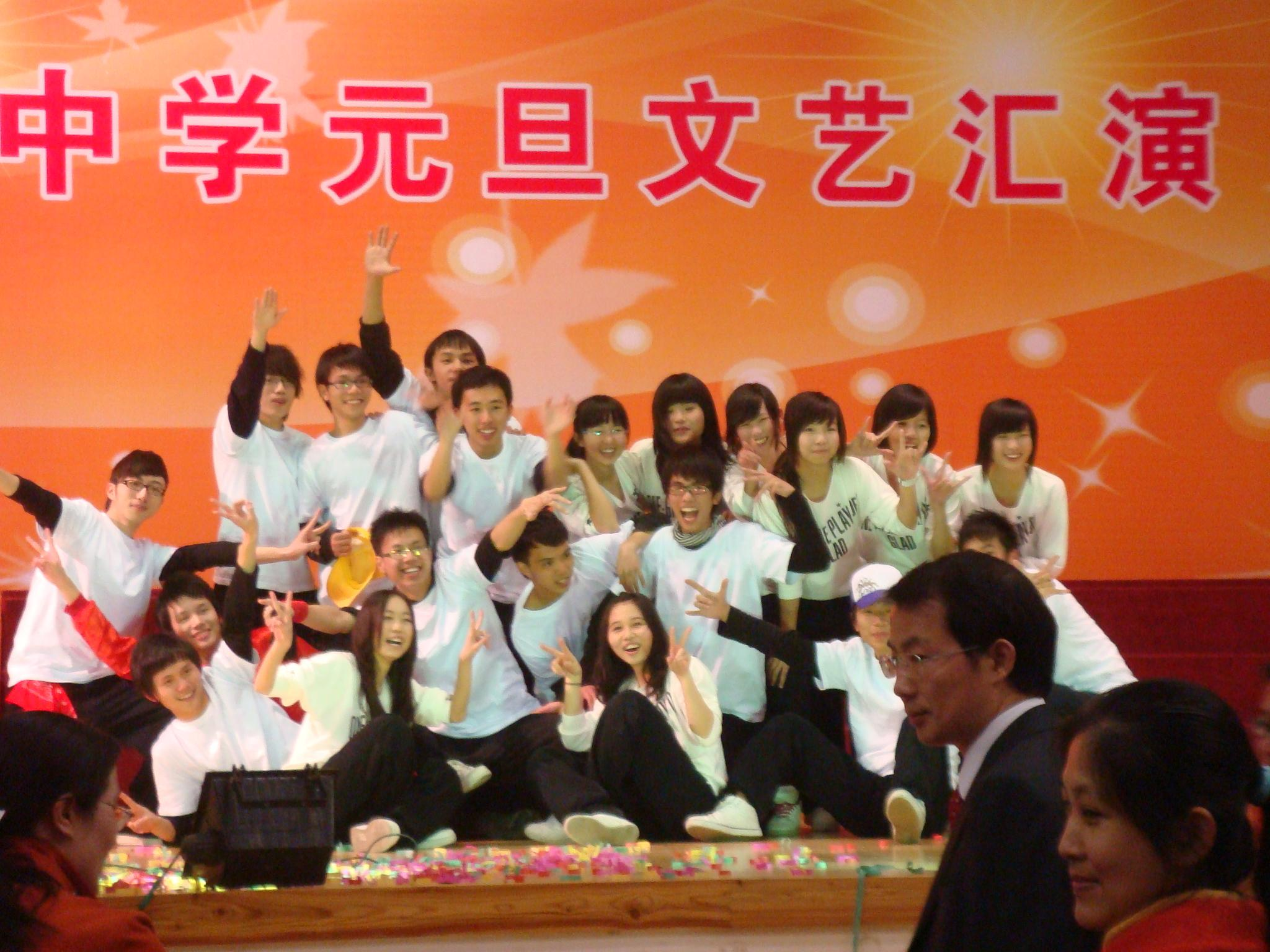 With the school headmaster (school principal)